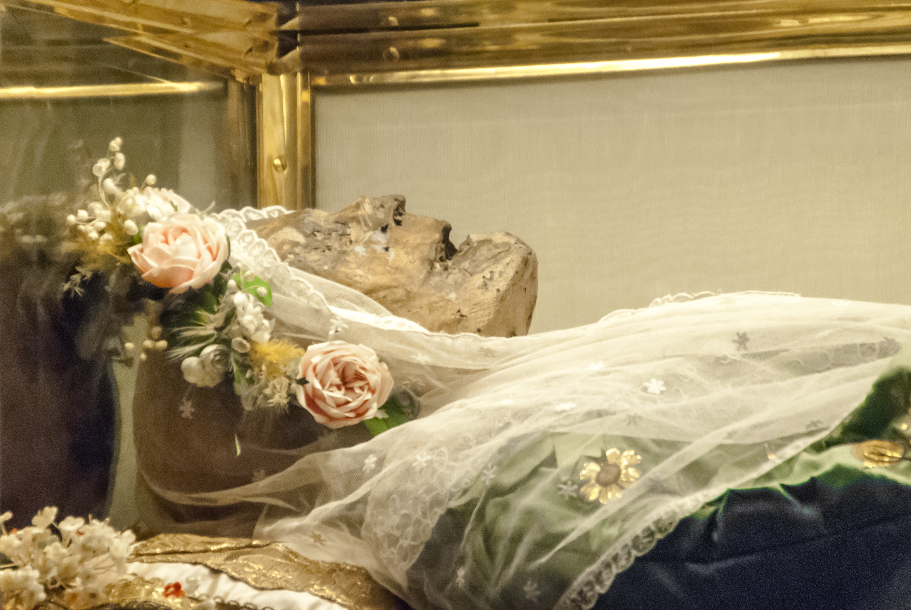 Saint Zita mummified body in San Frediano Church, Lucca, Tuscany, Italy